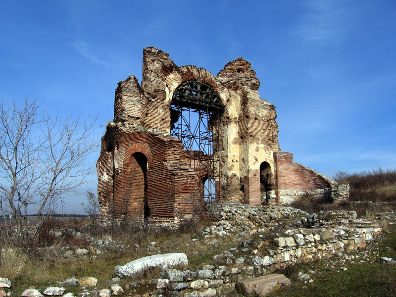 The Red Church near Perushtitsa, Bulgaria (Червената църква in Bulgarian)